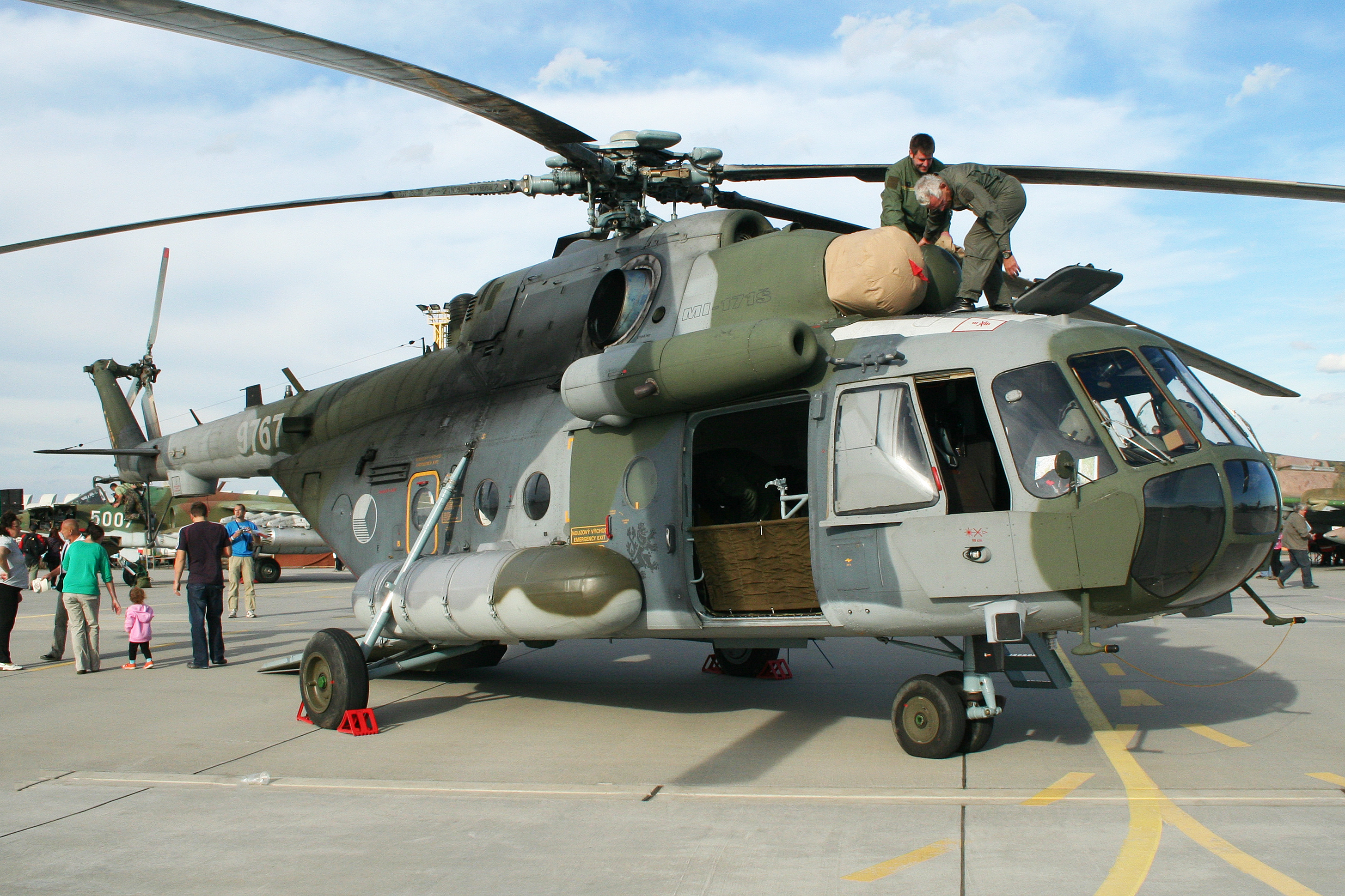 Operated by 231.vrl at Prerov. msn 59489619767. On static display at the Namest Open Day, Czech Republic. 06-10-2012